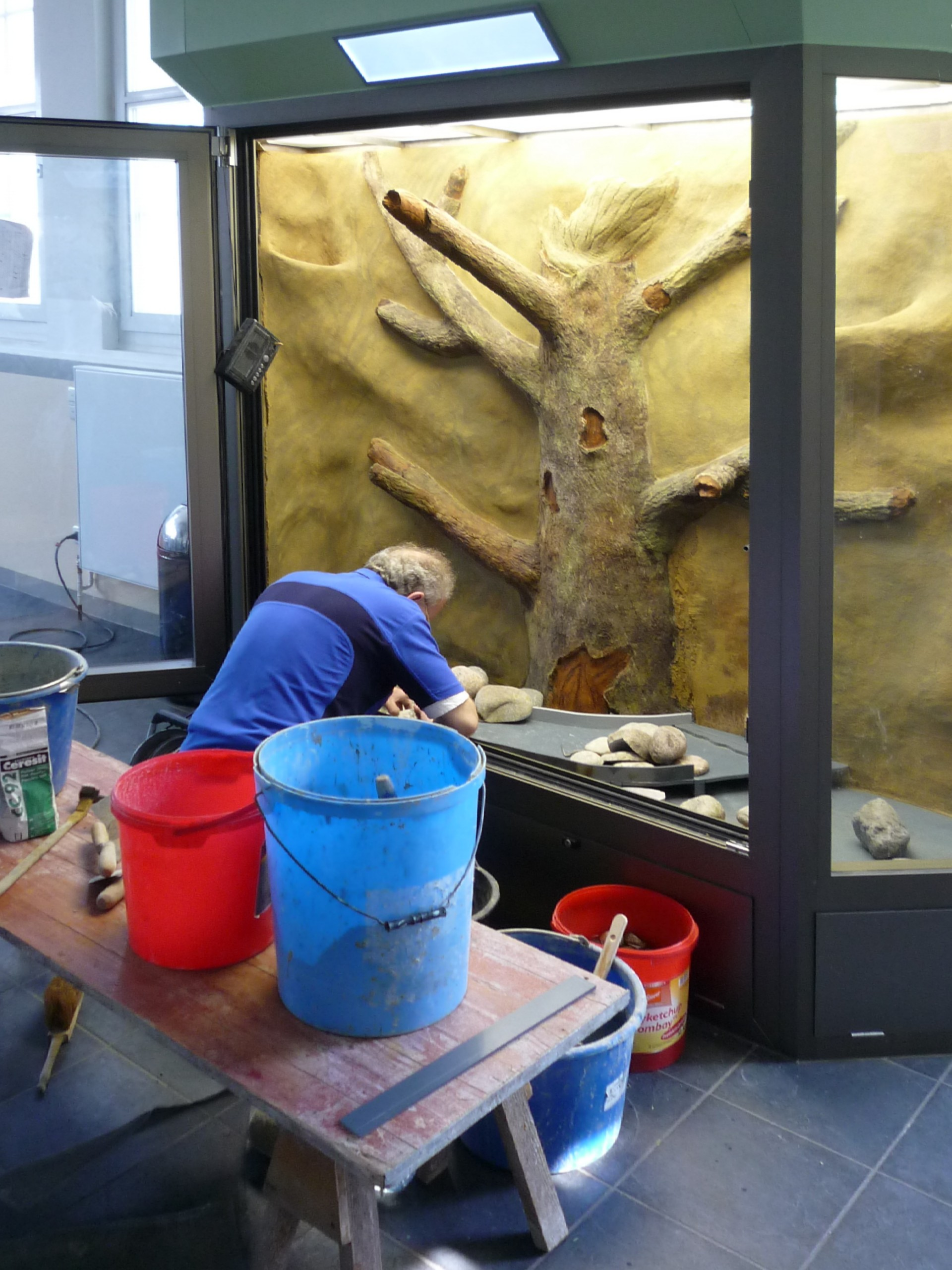 Zoo Aquarium Berlin, preparation of a show case.